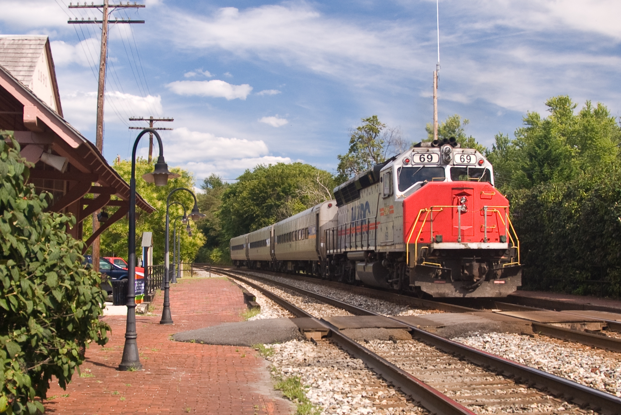 MARC 69 at Dickerson Station